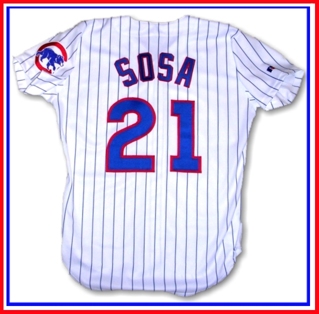 Sammy Sosa 1998-99 Chicago Cubs home baseball uniform. This authentic jersey is made by Russell Athletic. The photograph was taken from my sports memorabilia collection with a Nikon Coolpix e3200 digital camera and edited using ArcSoft PhotoStudio 5.5